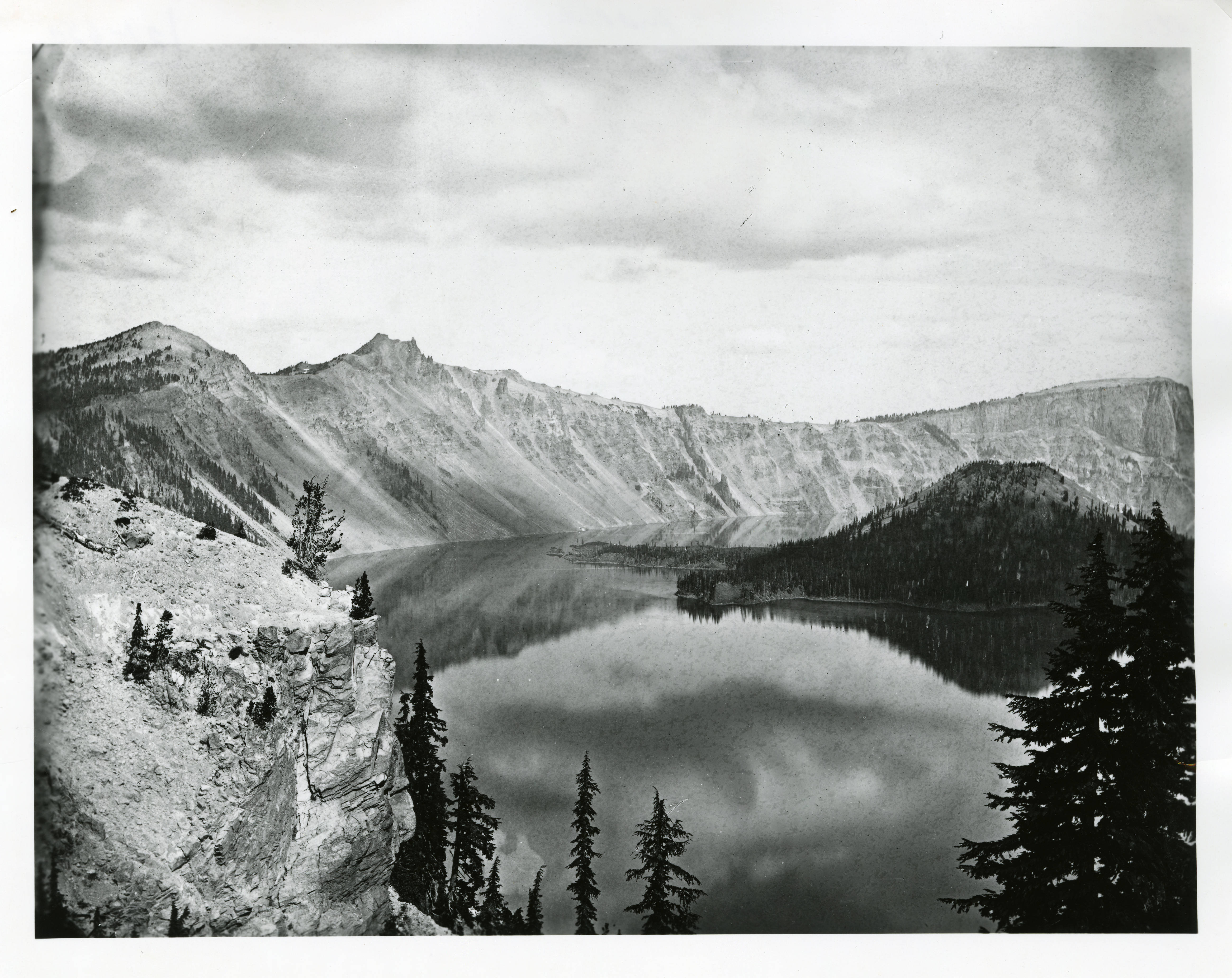 Crater Lake, Oregon, showing Wizard Island, 1874. This photograph is part of the Peter Britt Photograph Collection at Southern Oregon University and made available courtesy of Southern Oregon University Hannon Library Special Collections.